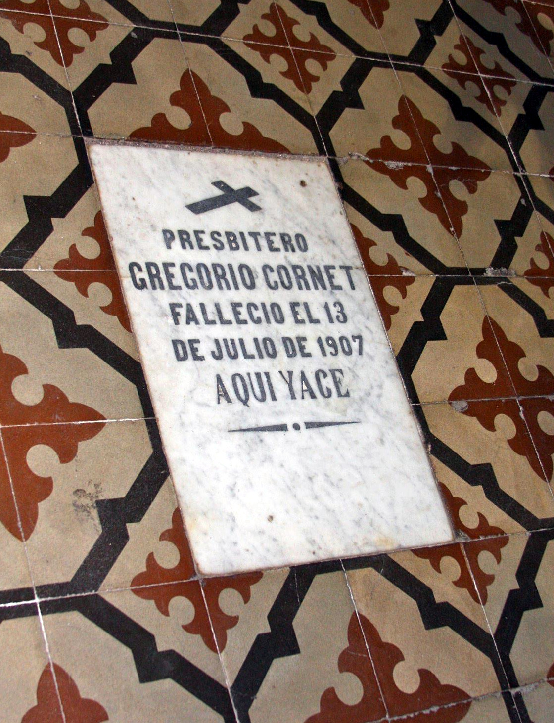 Tumba de Monseñor Gregorio Cornet, Iglesia de Santo Domingo, Santiago del Estero